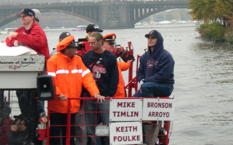 Mike Timlin, Keith Foulke and Bronson Arroyo during the 2004 World Series parade